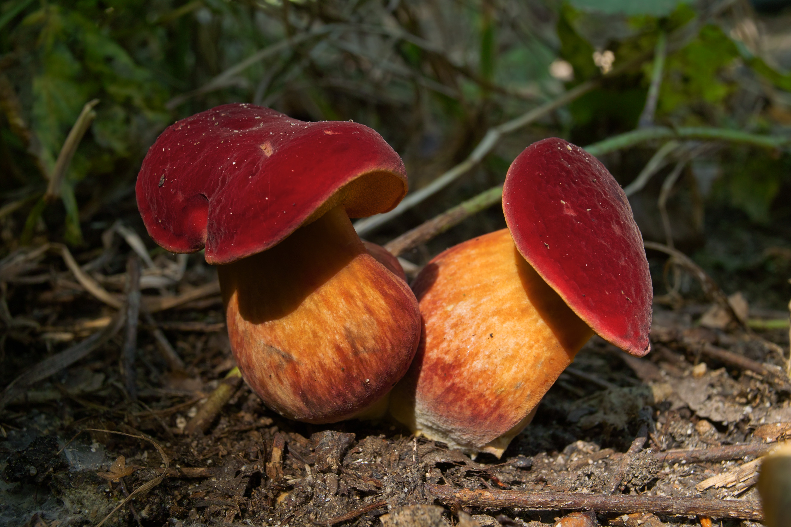 Xerocomellus rubellus syn. Boletus rubellus syn Xerocomus rubellus, Vrbenské rybníky, Czech Republic